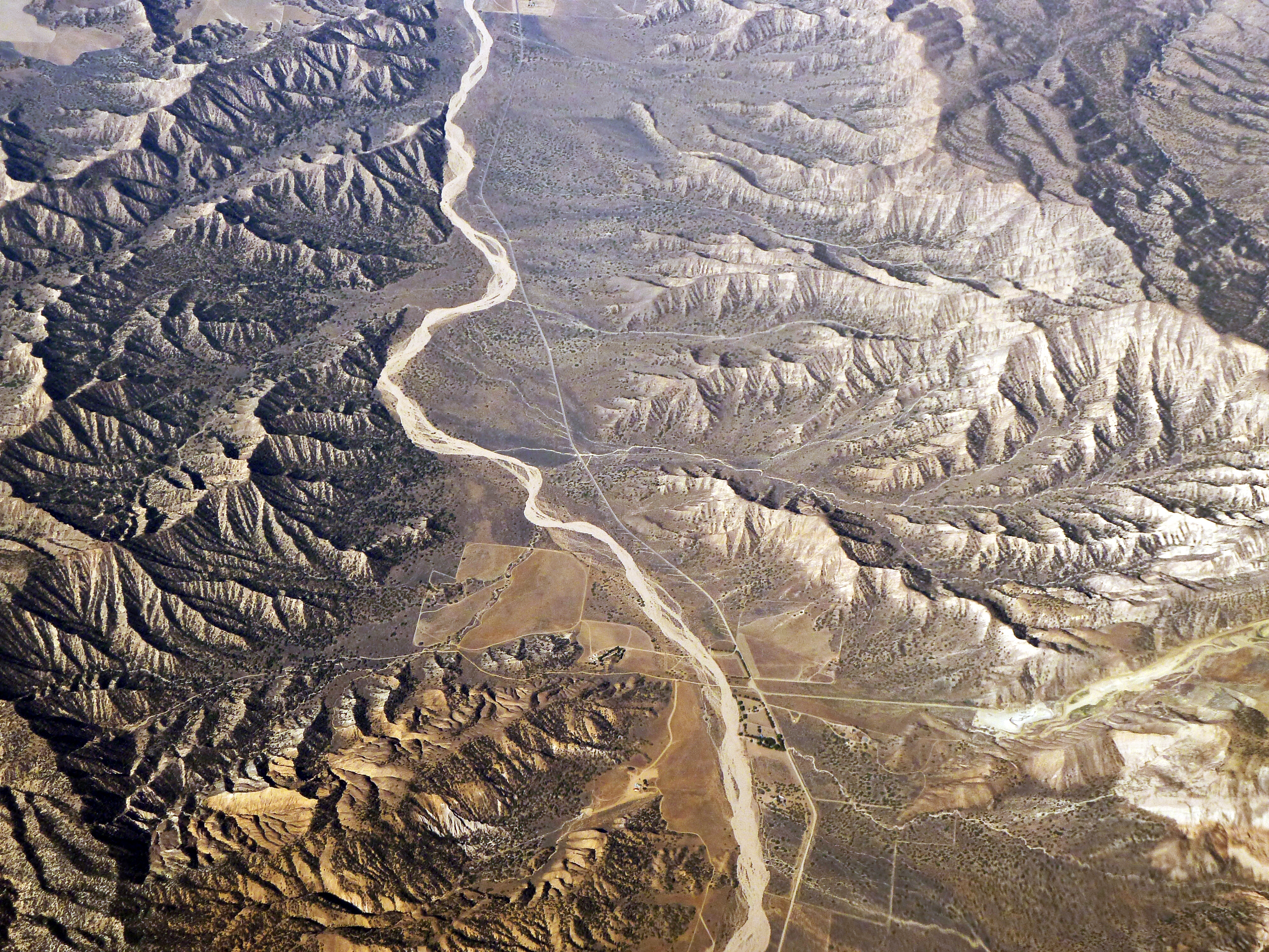 Aerial view of Cuyama Valley, California, USA